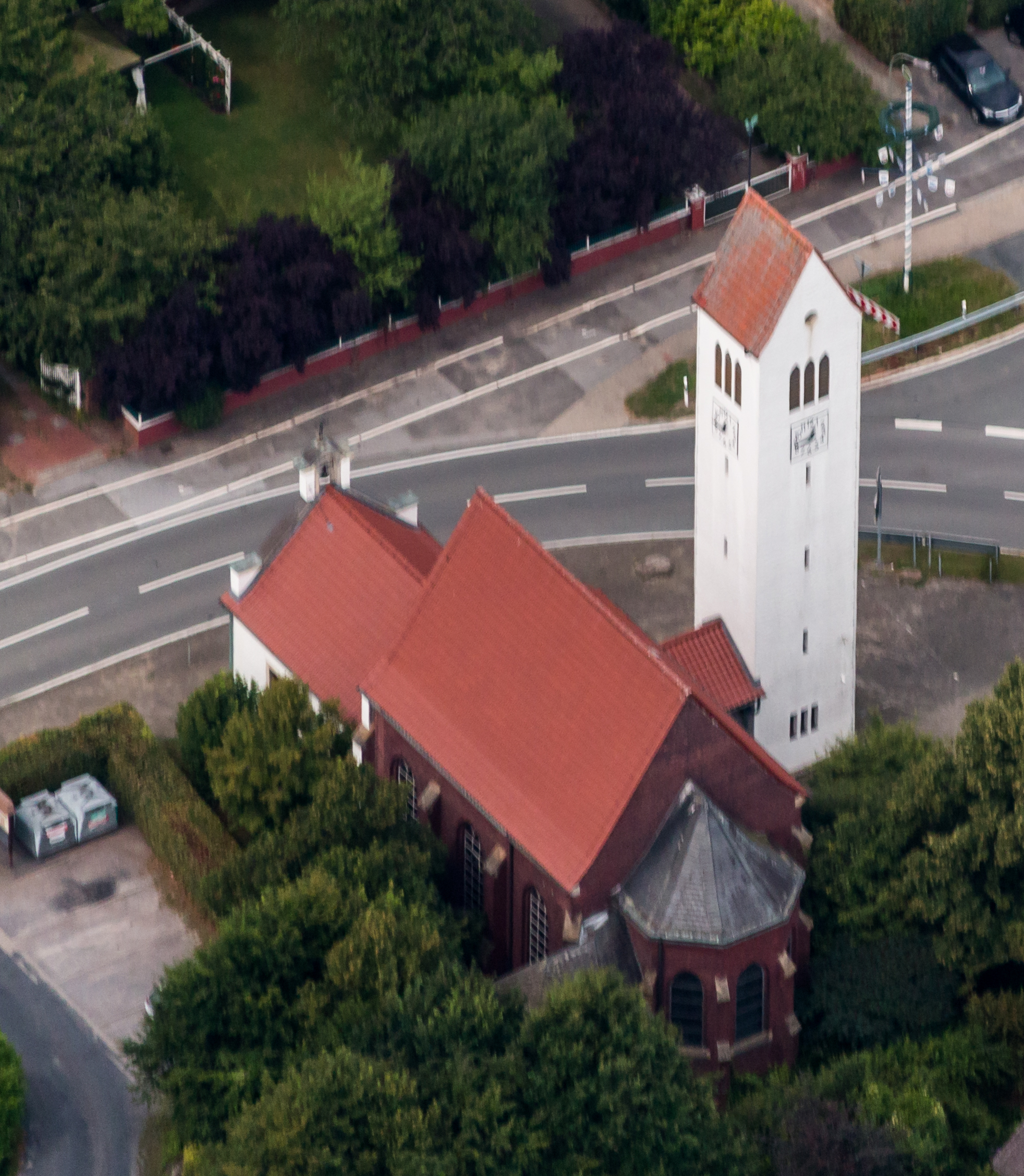 St. John of Nepomuk Church, Altenberge, North Rhine-Westphalia, Germany